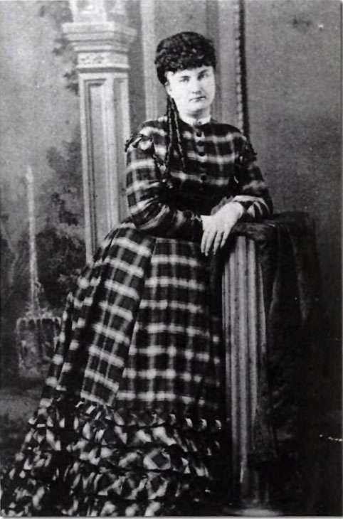 Celia Ann "Mattie" Blaylock was Wyatt Earp's common-law wife from about 1873 until mid-1881. After Wyatt left her for another woman, she later moved to Pinal City, Arizona Territory, where she apparently overdosed on laudanum and alcohol.